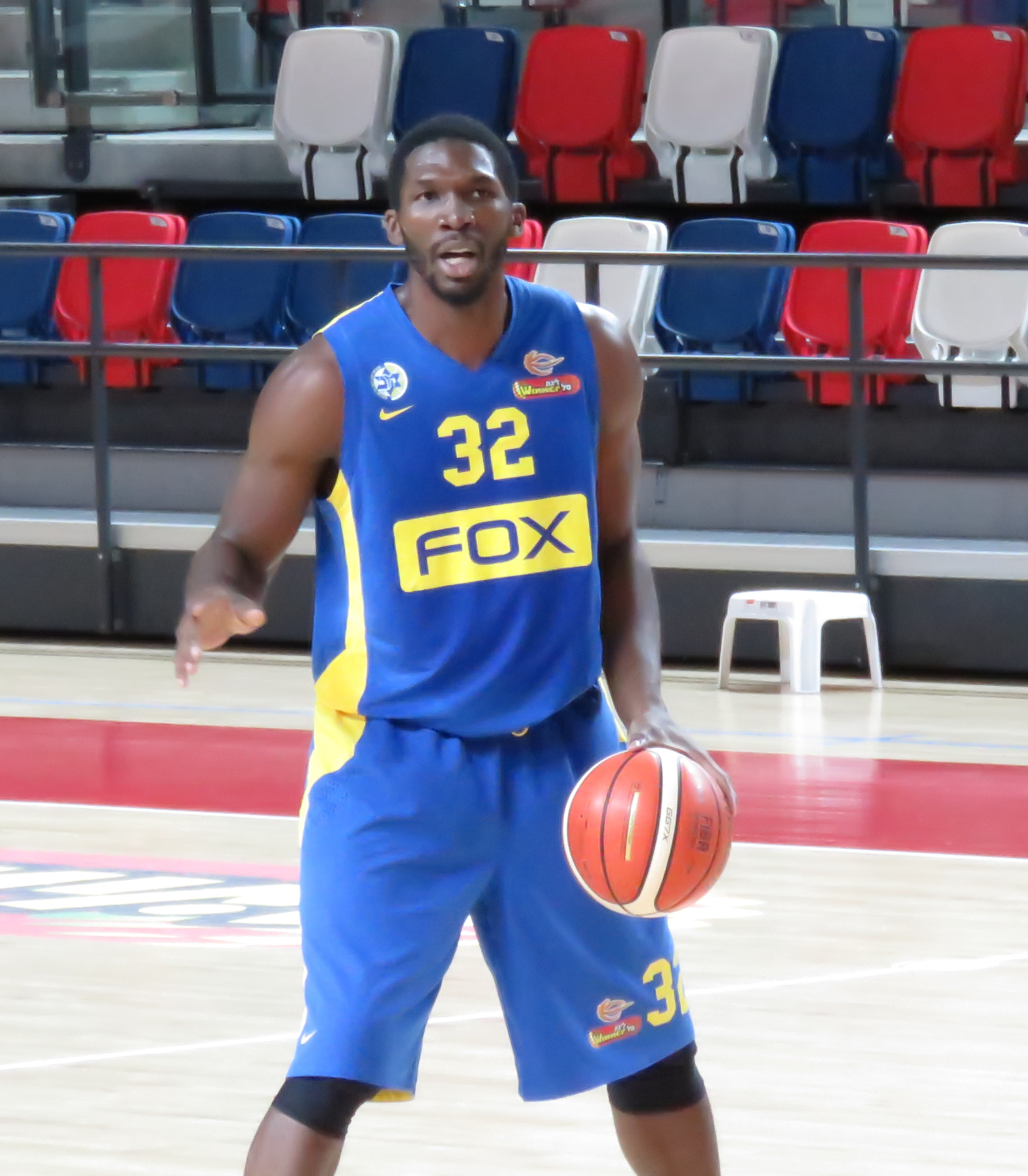 Maccabi Rishon LeZion vs. Maccabi Tel Aviv B.C., 26 September, 2015